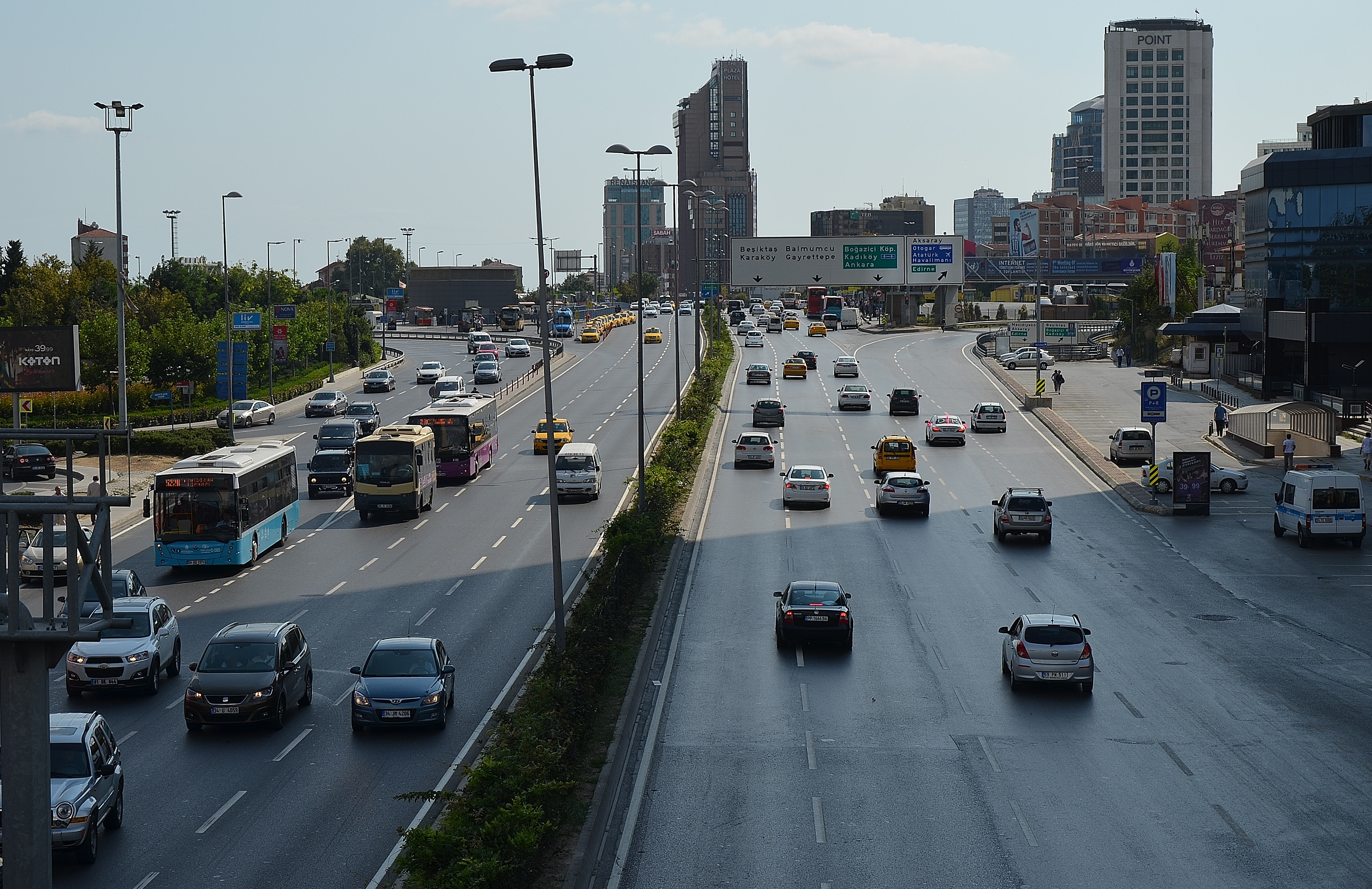 Barbaros Boulevard seen soutwards at Zincirlikuyu, Şişli - Istanbul, Turkey